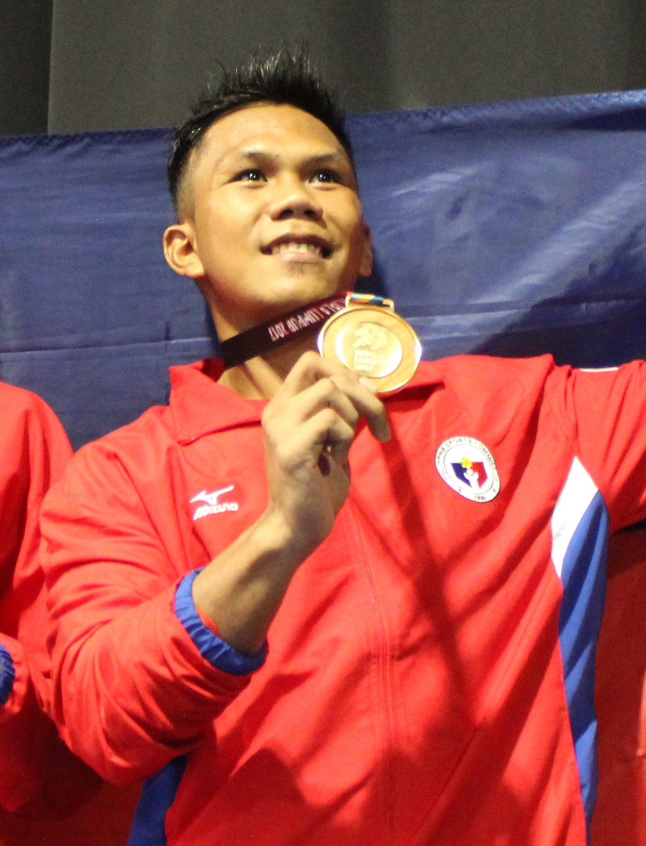 Eumir Felix Marcial at the 2017 Southeast Asian Games.